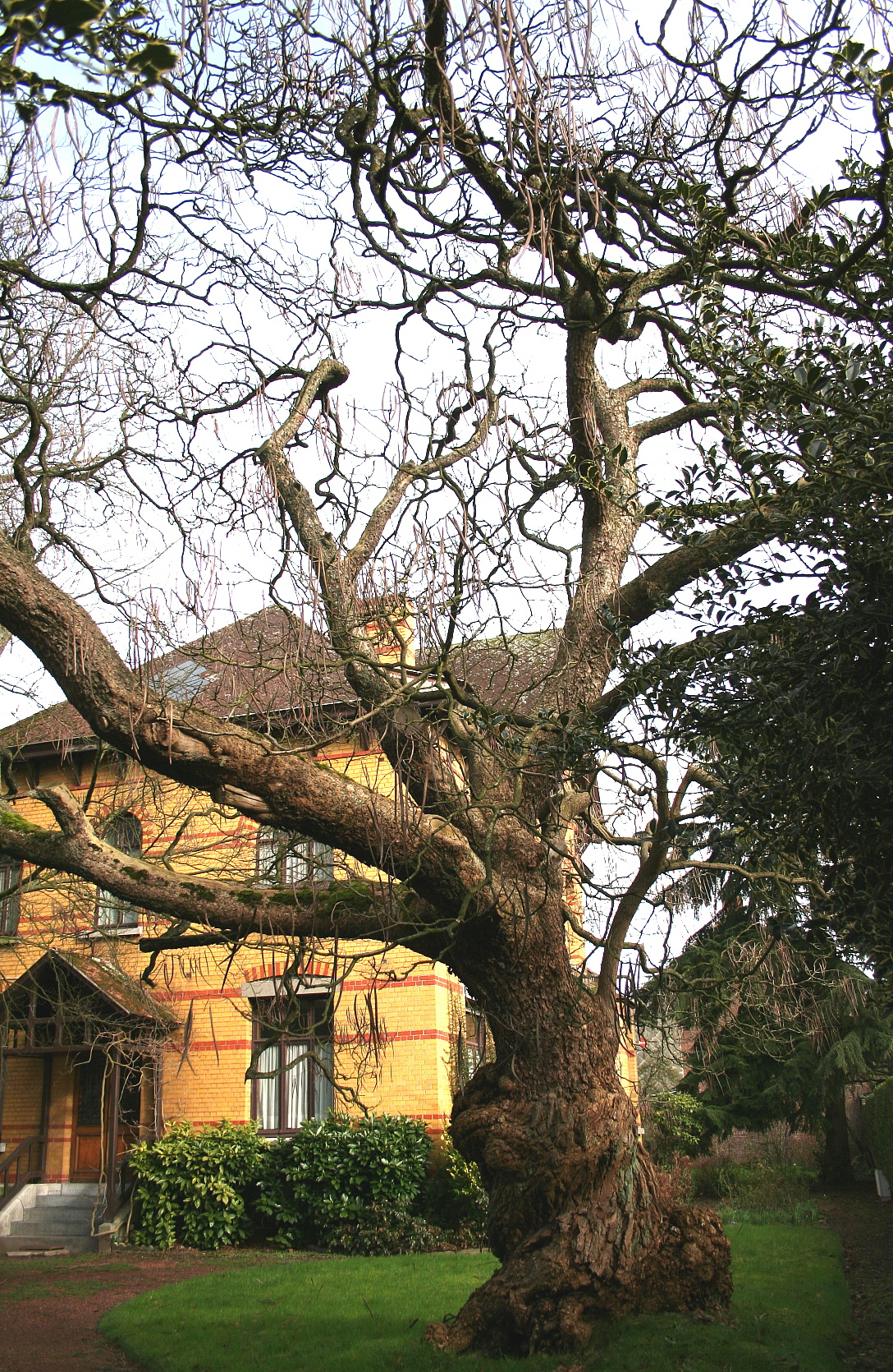 Southerne catalap cv. Aurea.